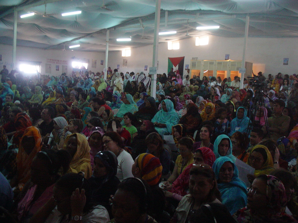 First day of sessions of the 5th Congress of the "National Union of Sahrawi Women", in the Tinduf refugee camps.